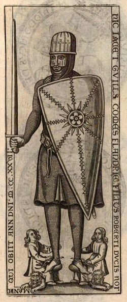 Guillaume Cliton